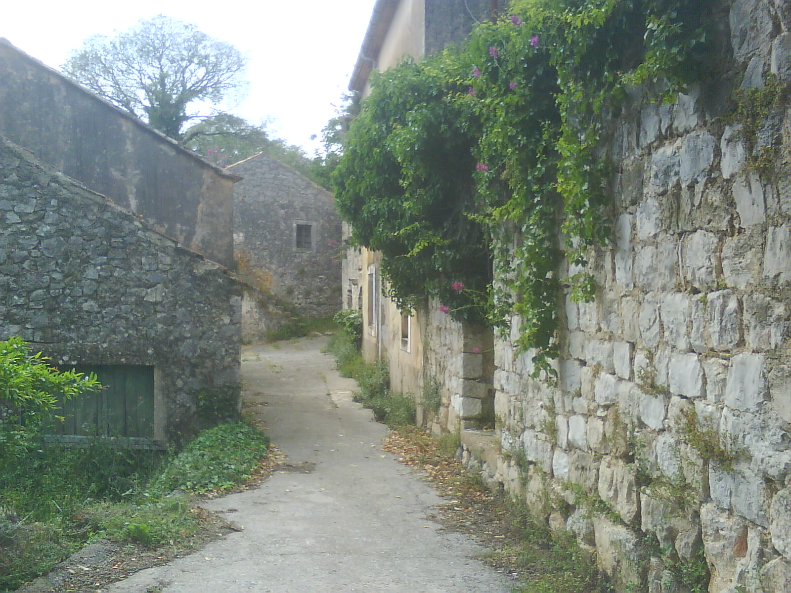 Donja Vrućica, village in Trpanj municipality - Google Maps - Google Earth